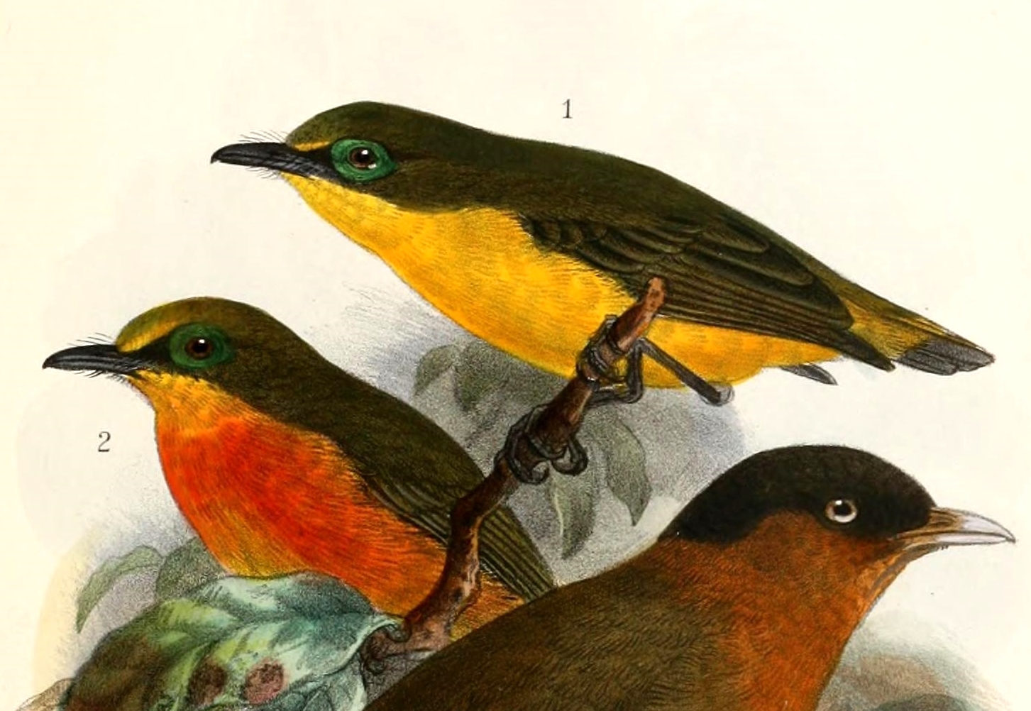 « Diaphorophyia graueri » = Platysteira concreta graueri (Subspecies of Rufous-bellied Wattle-eye) - male and female